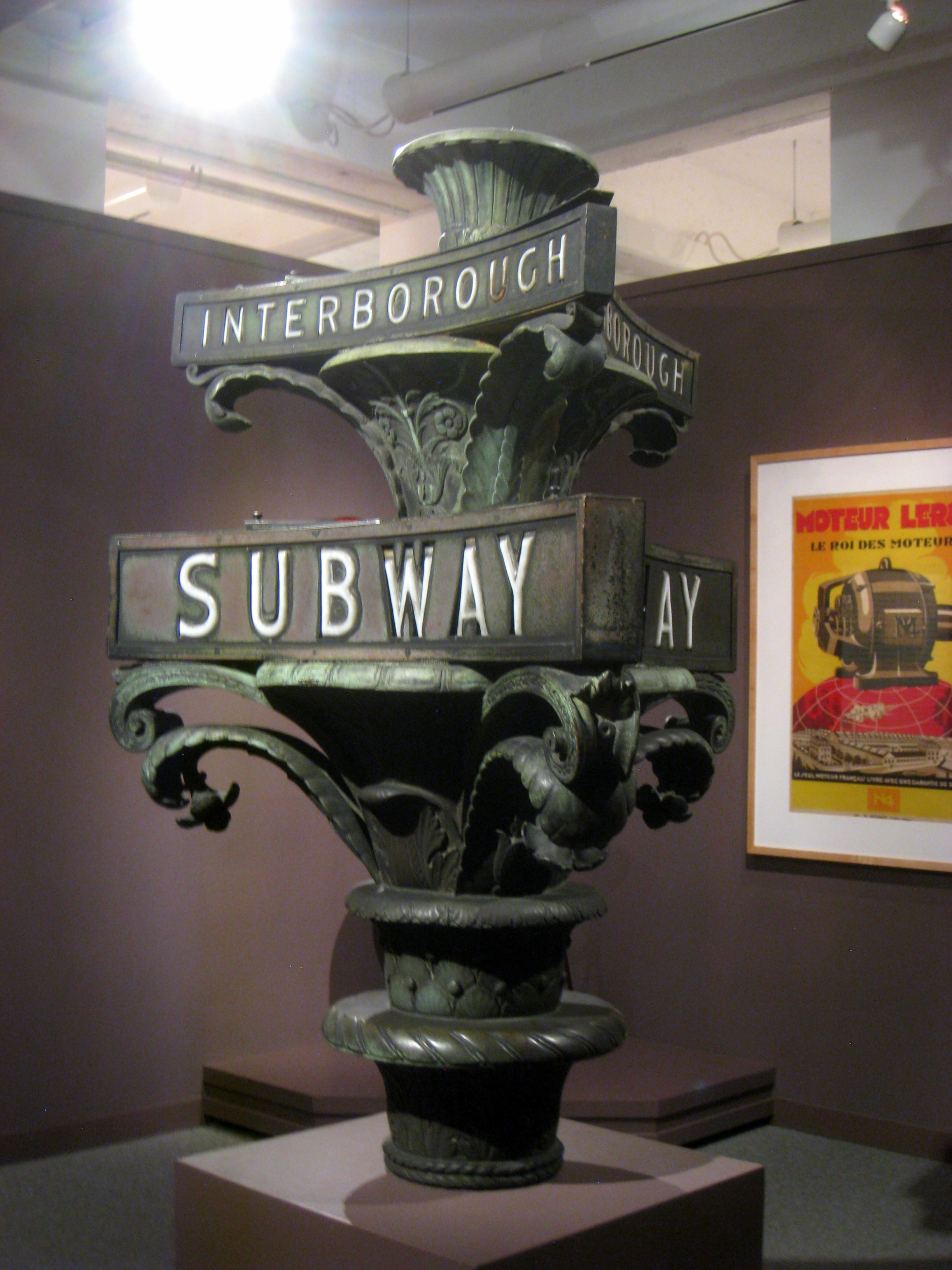 Sign for Interborough Subway, circa 1904, New York City; design attributed to George Lewis Heins and Christopher LaFarge; manufactured by Pulsifer & Larson Company. Exhibit in the Wolfsonian-Florida International University Museum, 1001 Washington Avenue, Miami Beach, Florida, USA. Photography was permitted in this area of the museum without restrictions.